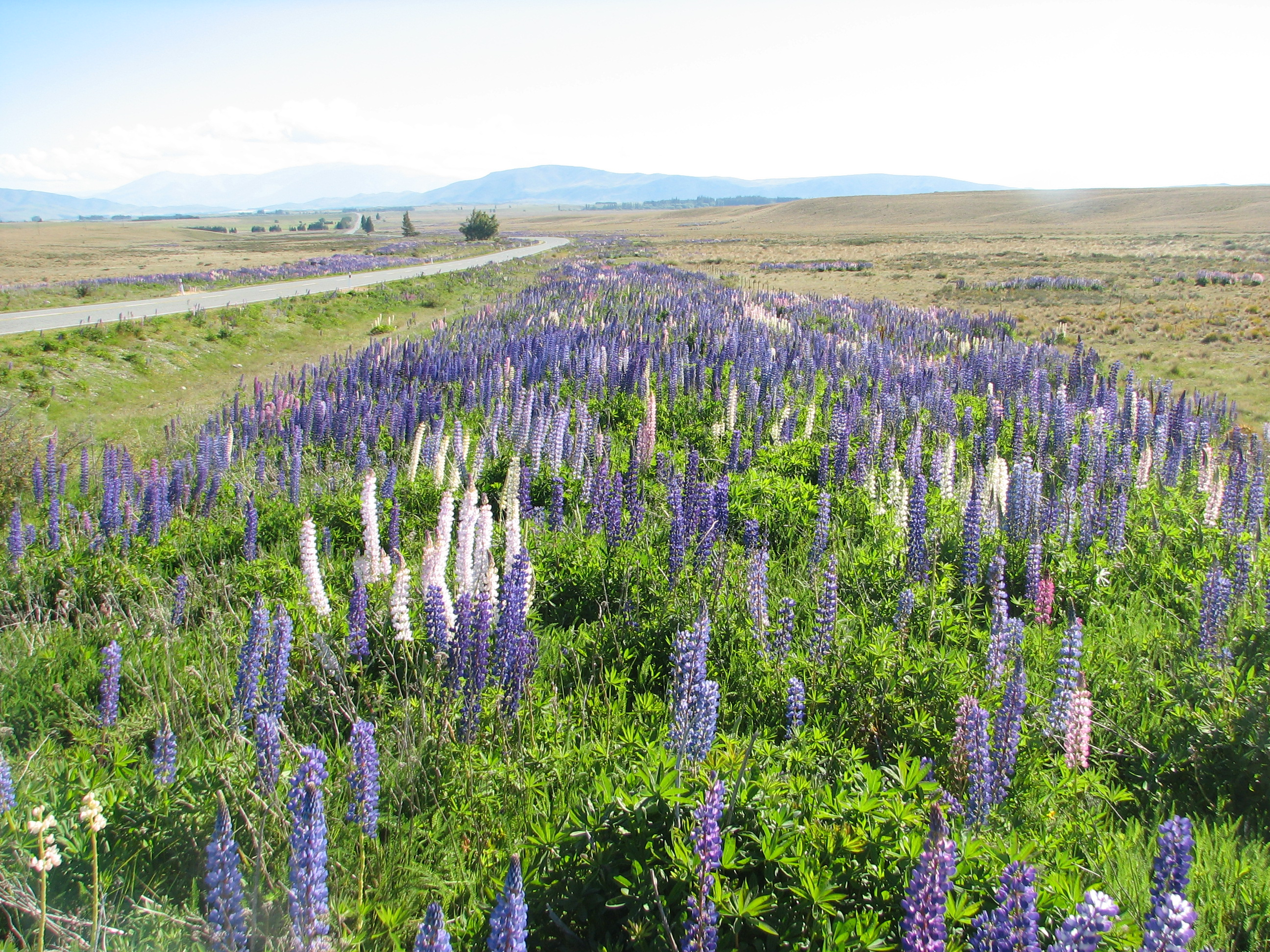 Lupinus polyphyllus, known as Russell lupin in New Zealand, alongside State Highway 8 in the Canterbury region.